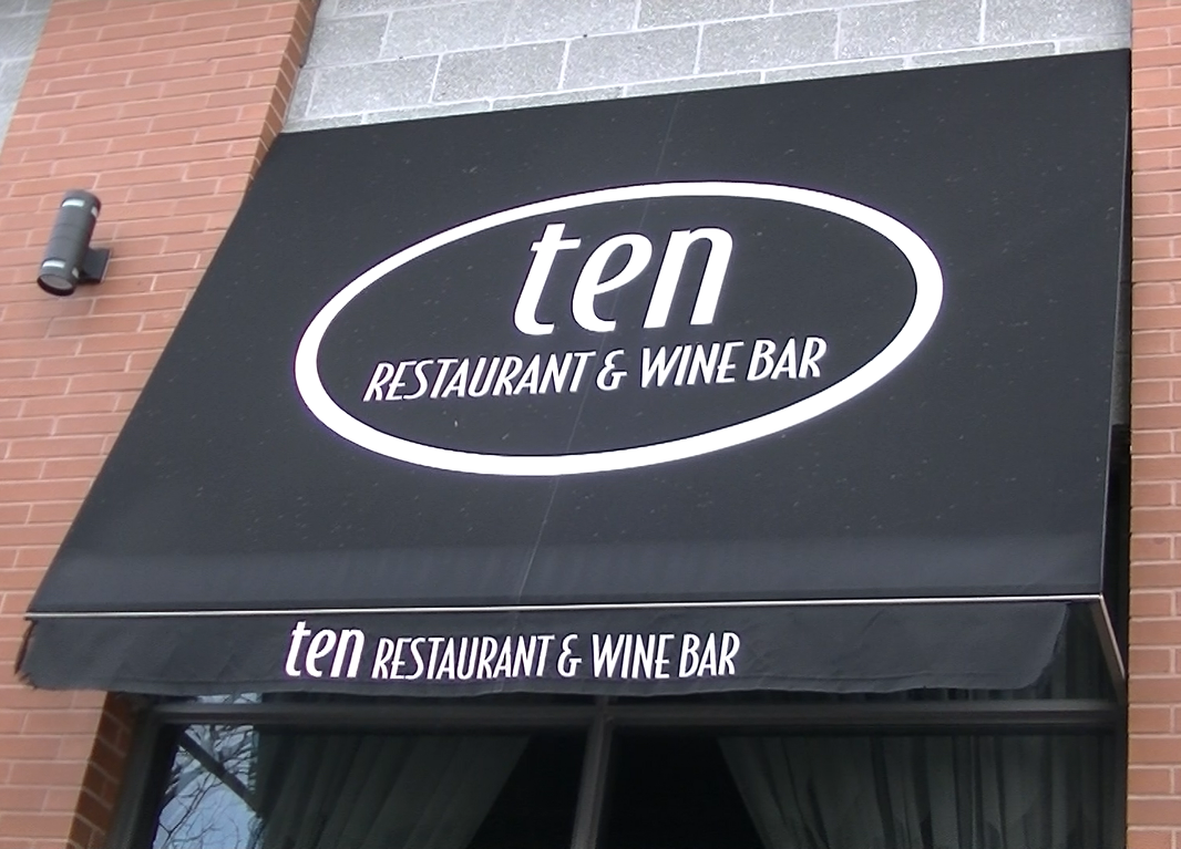 "Ten" Restaurant. A prime example of the "Highway 10" vernacular to describe Hurontario St.